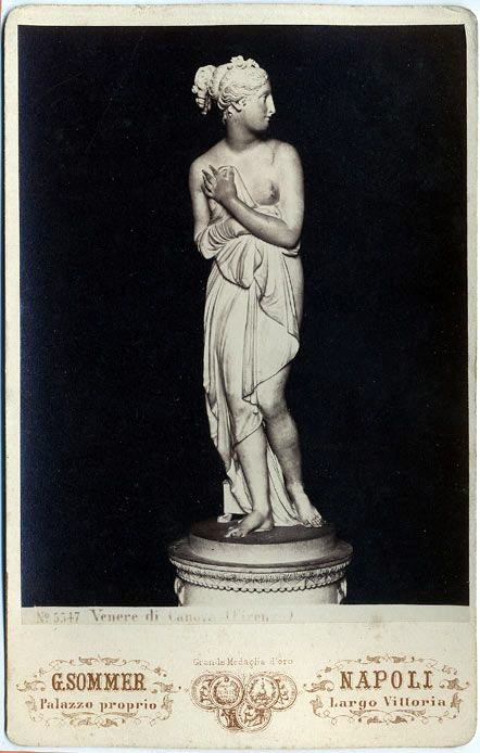 Giorgio Sommer (1834-1914), "Venus by Canova - Florence" (at Pitti Palace). Catalogue number: 5547.